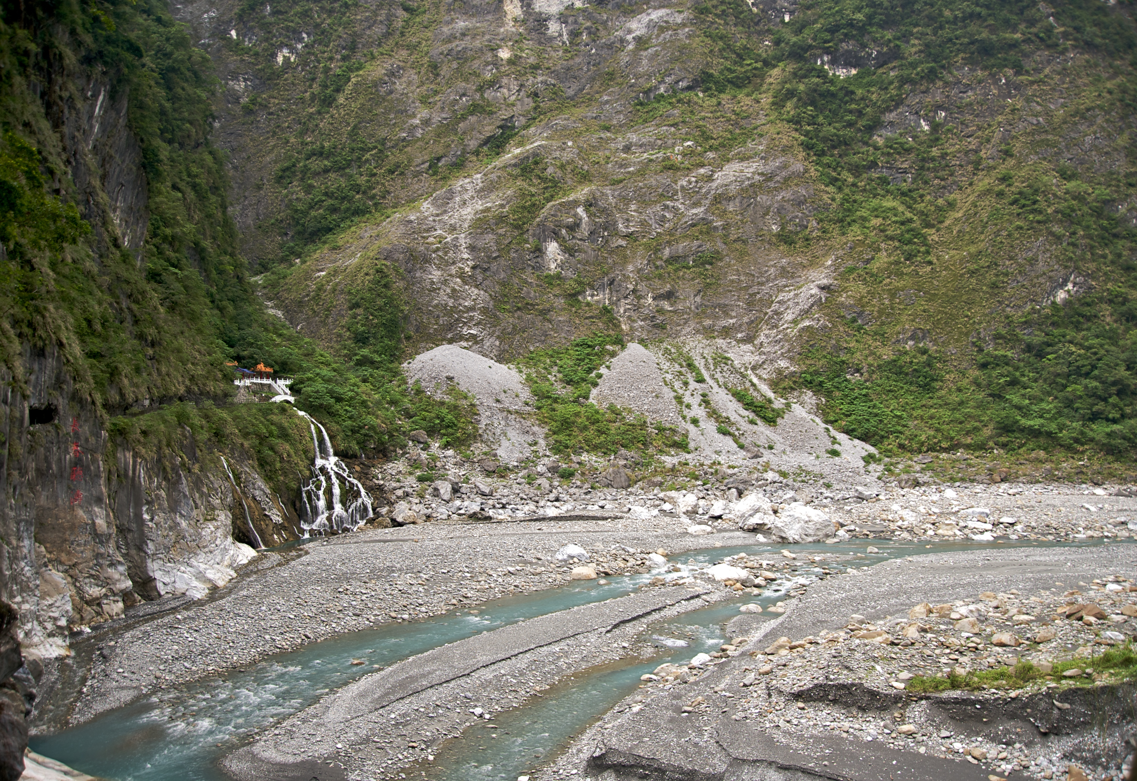 A view of the Eternal Spring Shrine from the Central Cross-Island Highway at Taroko Gorge in Taiwan